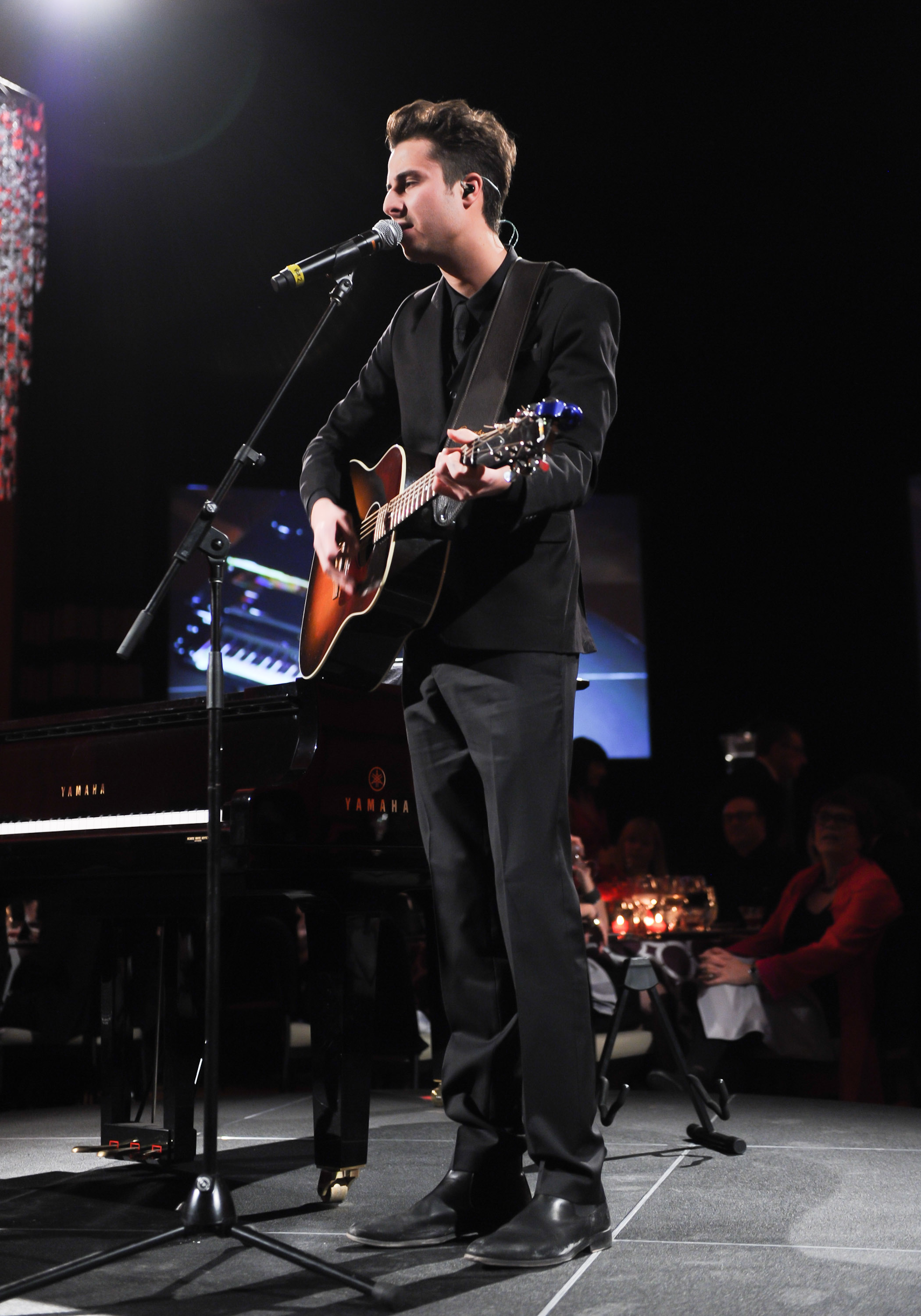 Singer Bobby Bazini This year, the CFC Annual Gala & Auction took guests on a spectacular journey through film with MUSIC & MOVIES.